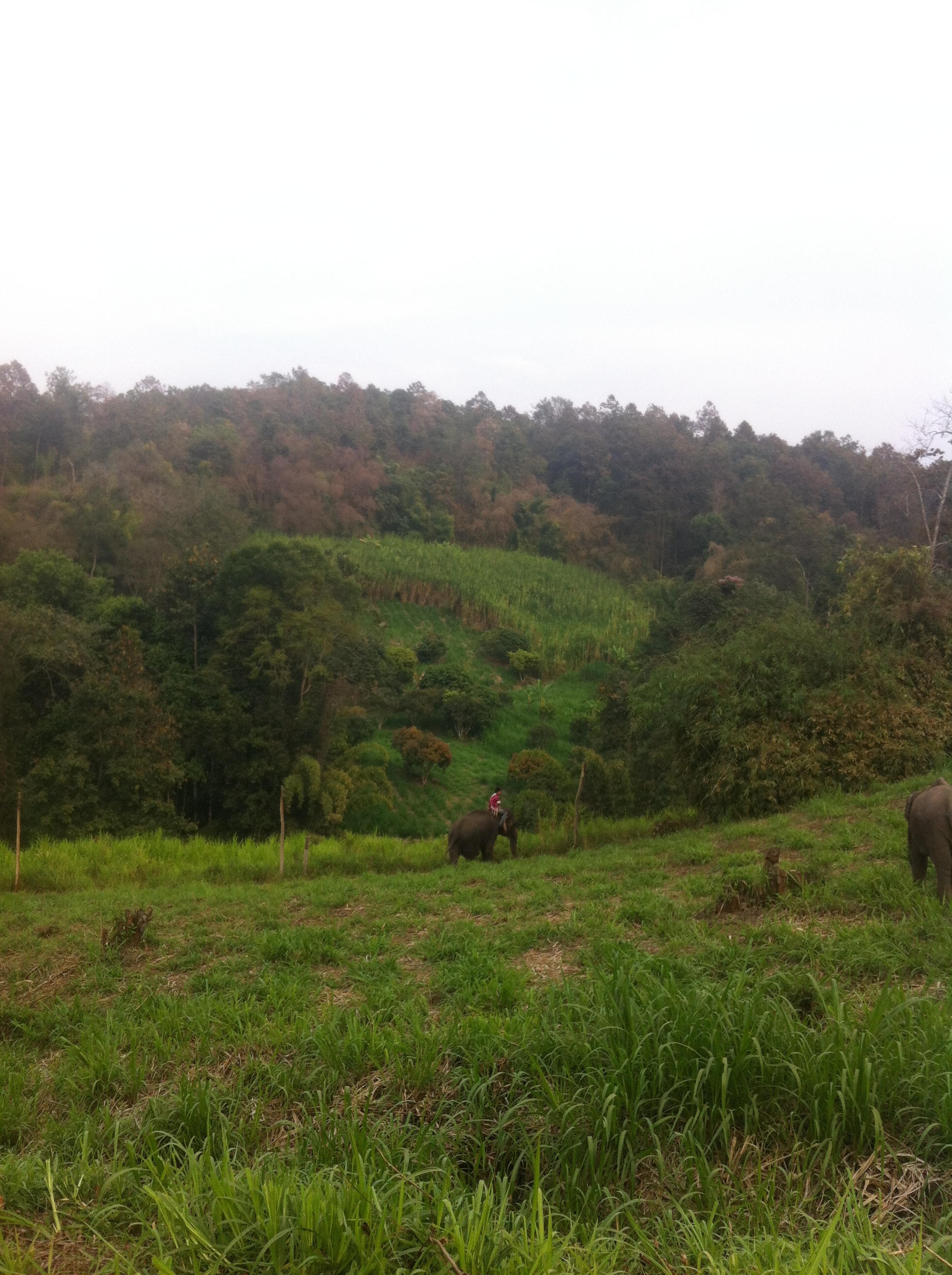 A mahout and his elephant at Patara Elephant Farm near Chiang Mai, Thailand. He is leading his elephant back to Patara after a day with visitors.